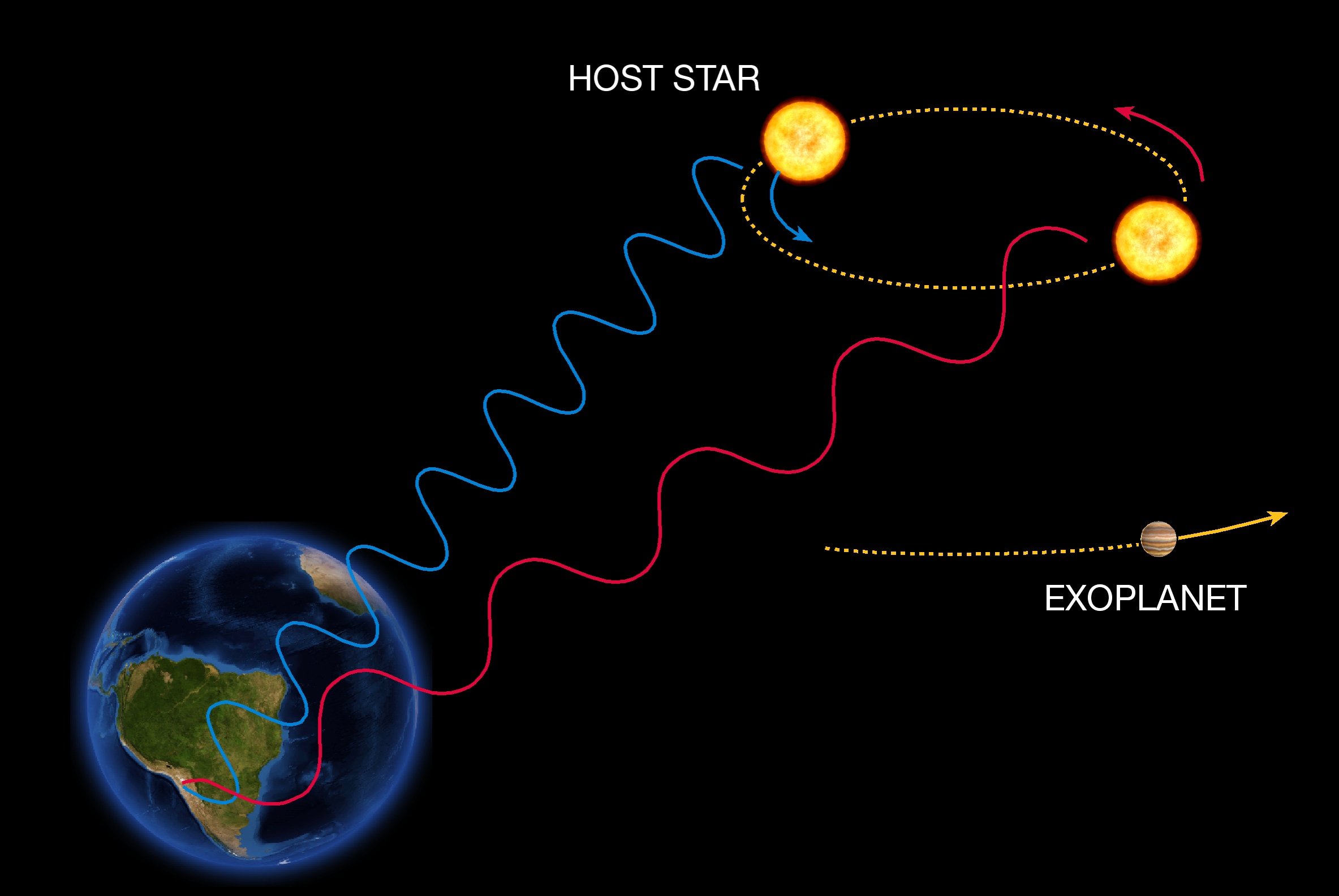 The radial velocity method to detect exoplanet is based on the detection of variations in the velocity of the central star, due to the changing direction of the gravitational pull from an (unseen) exoplanet as it orbits the star. When the star moves towards us, its spectrum is blueshifted, while it is redshifted when it moves away from us. By regularly looking at the spectrum of a star - and so, measure its velocity - one can see if it moves periodically due to the influence of a companion.